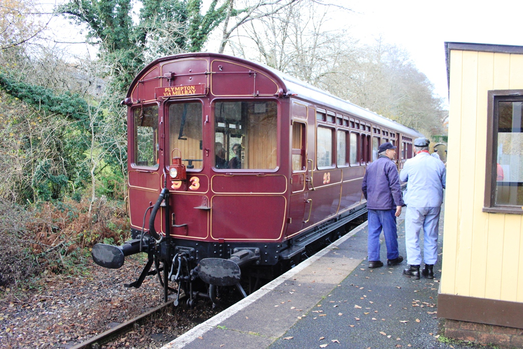 The preserved Great Western Railway steam rail motor at Coombe Junction Halt on the Looe Valley Line. It operated special trains over the line on two Sundays in November 2012. As trains have to reverse direction here the train took on water each time from a road tanker parked on the bridge at the north end of the station.